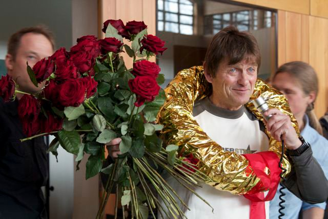 Picture of Helmar Mang's of his farewell party at the grammar school "Gymnasium Tegernsee".